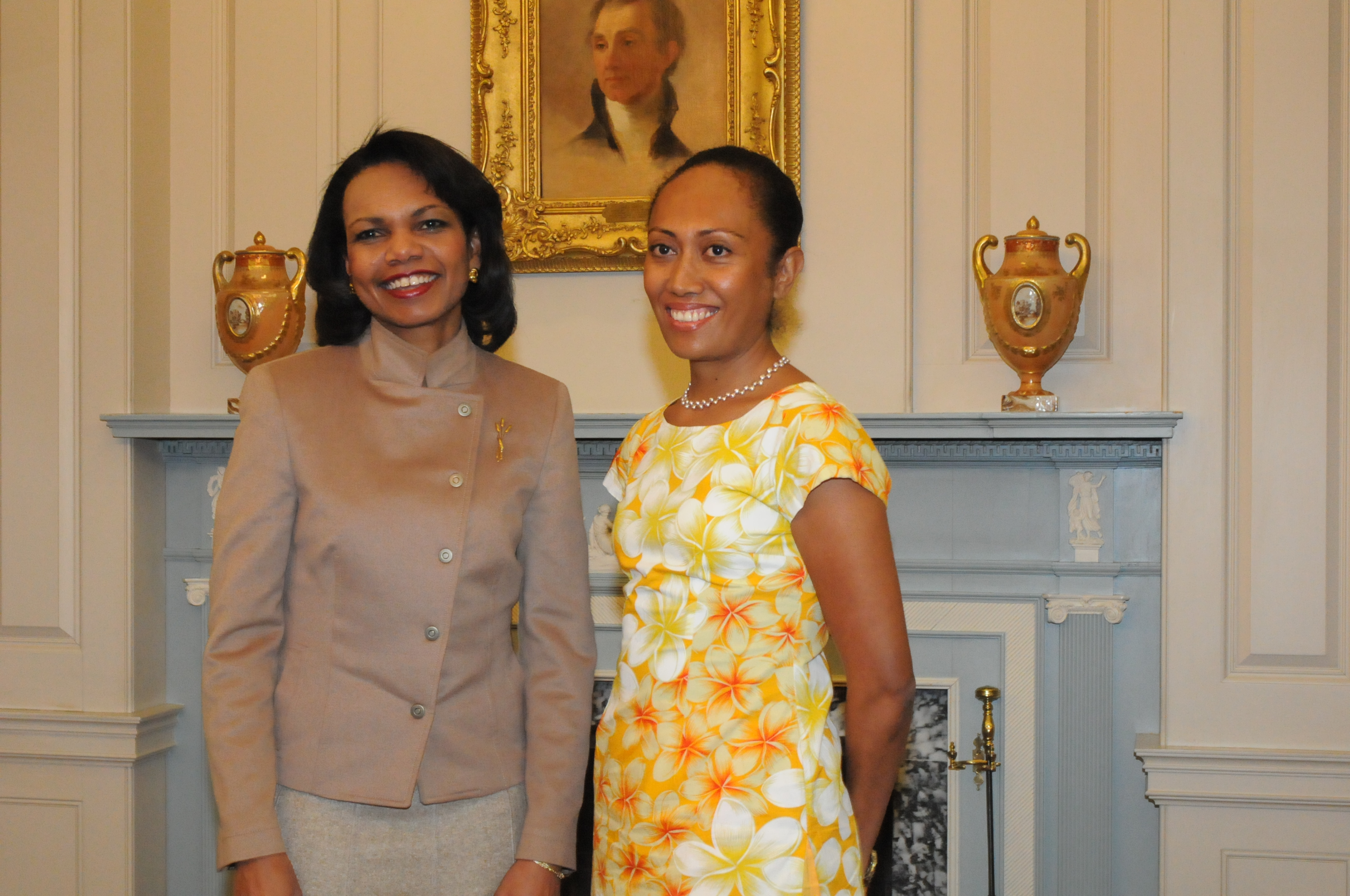 Secretary of State Condoleeza Rice (l) with Fiji 2008 IWOC Awardee, Ms Virisila Buadromo (r)